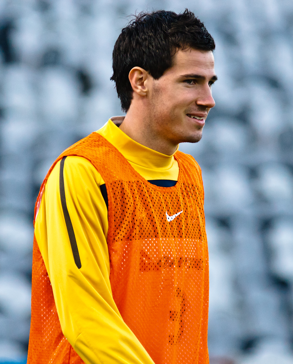 Ryan McGowan warming up for the Australian Olympic Football team in 2011 at Gosford, New South Wales.